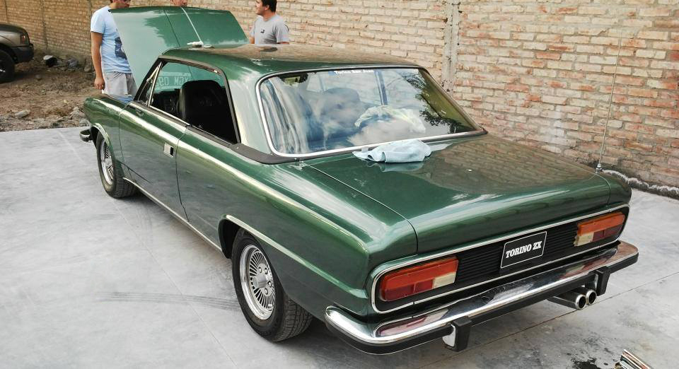 Torino ZX